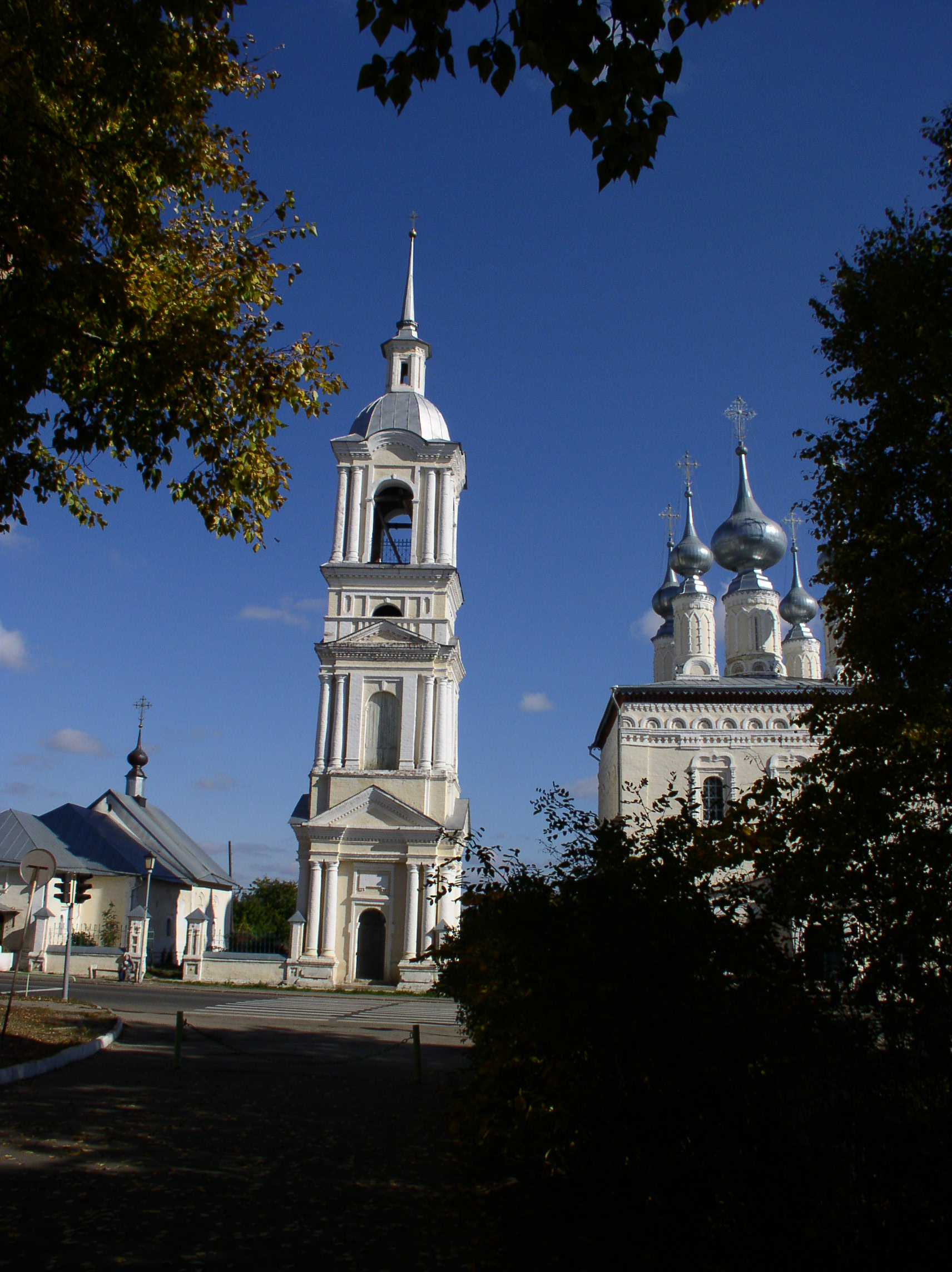 Our Lady of Smolensk and Saint Simeon churches. Suzdal, Russia.